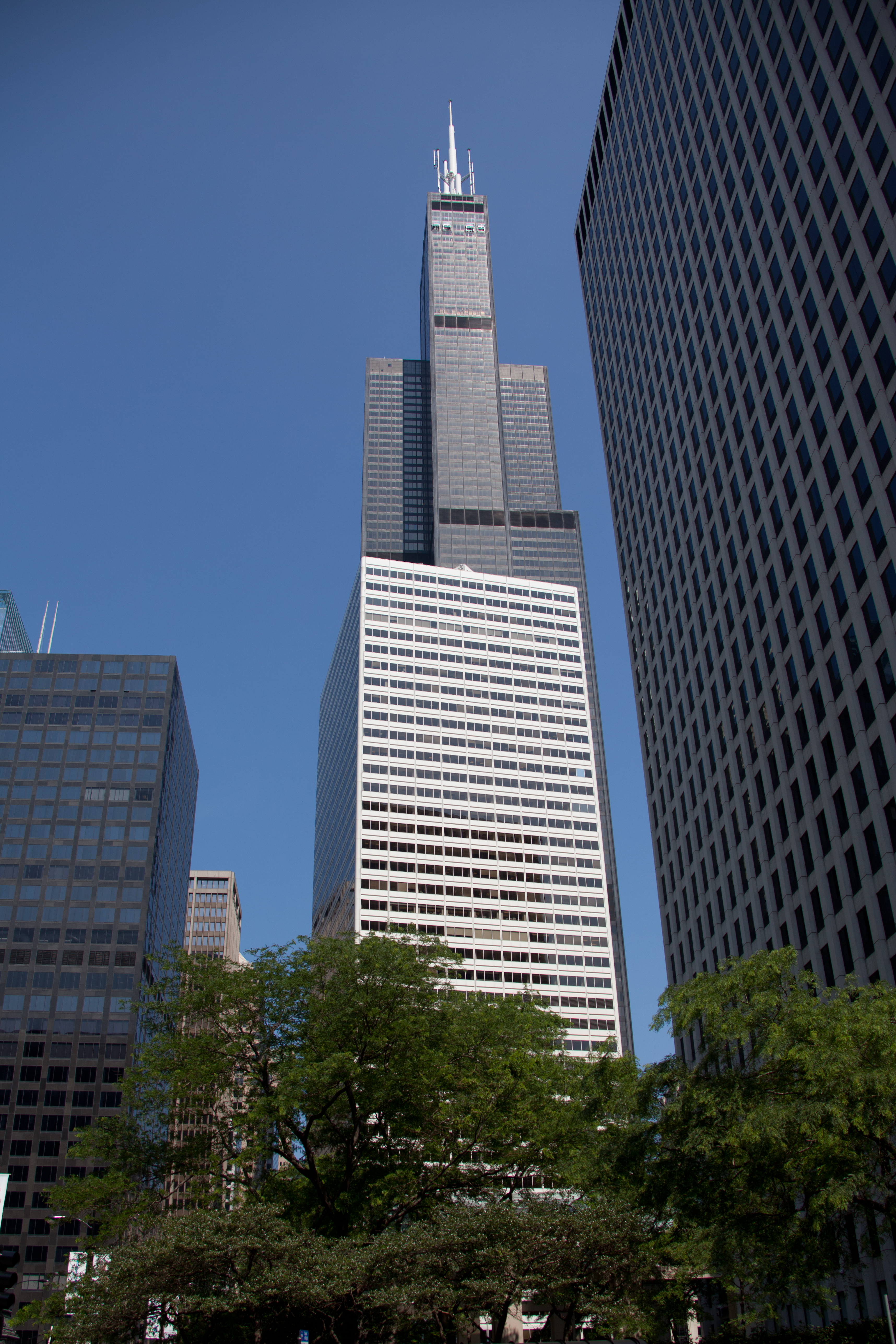 View of 200 South Wacker from the west. The Willis Tower (formerly the Sears Tower) standing behind it.